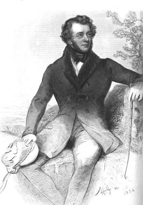 Engraving of author Charles Fenno Hoffman. From the frontispiece to his book The Echo; or, Borrowed Notes for Home Circulation, 1844.